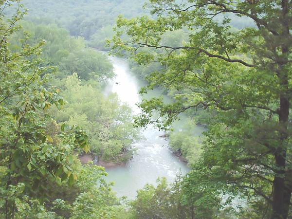 View of the Mulberry River with a canoe. ((Uploaders note: I believe this is in Arkansas. The other surrounding pictures were labeled as such, however this was only listed by river name. I am being bold here and assuming the state. If I am in error, please correct.))